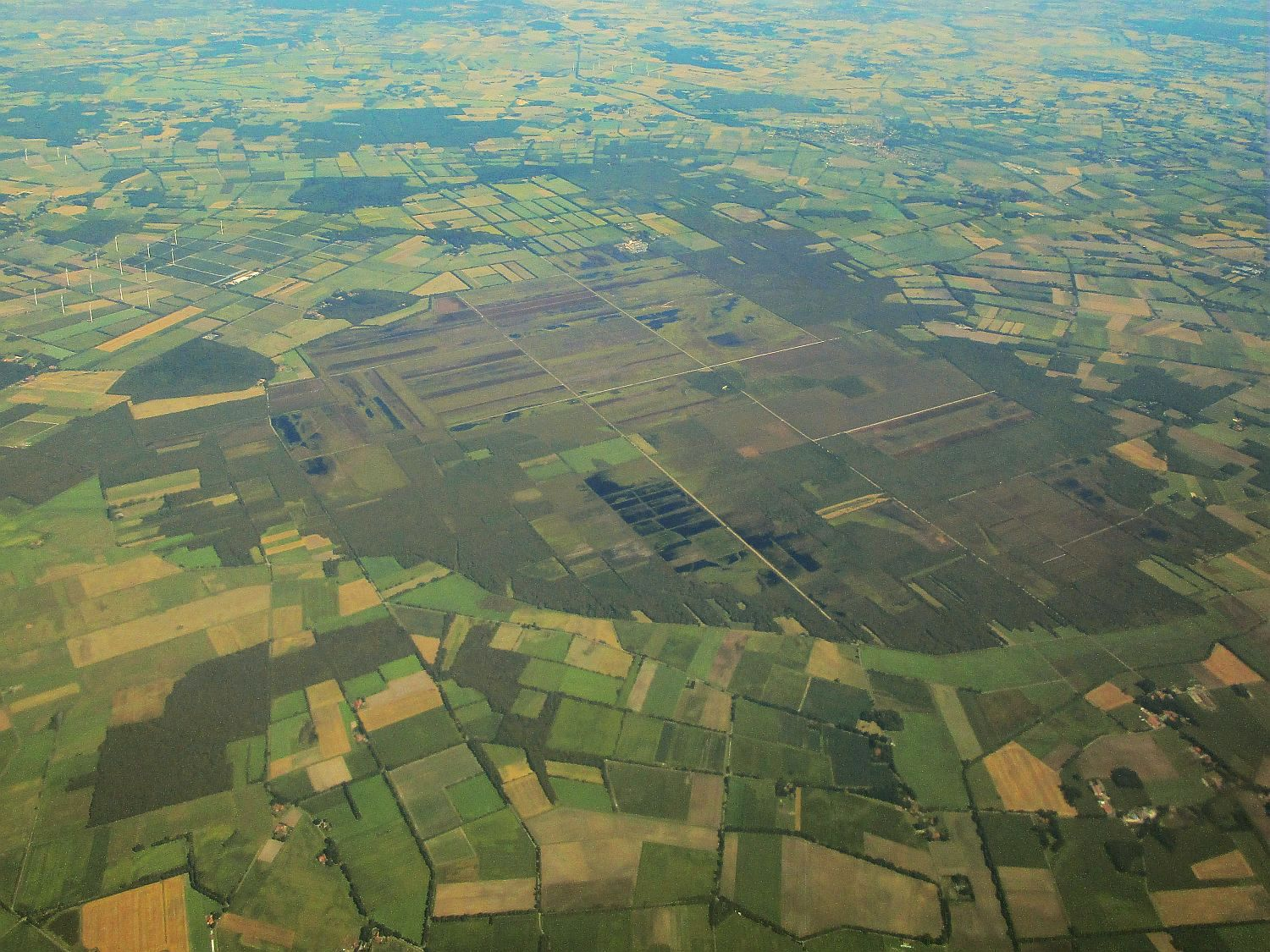 Area of special natural conservation